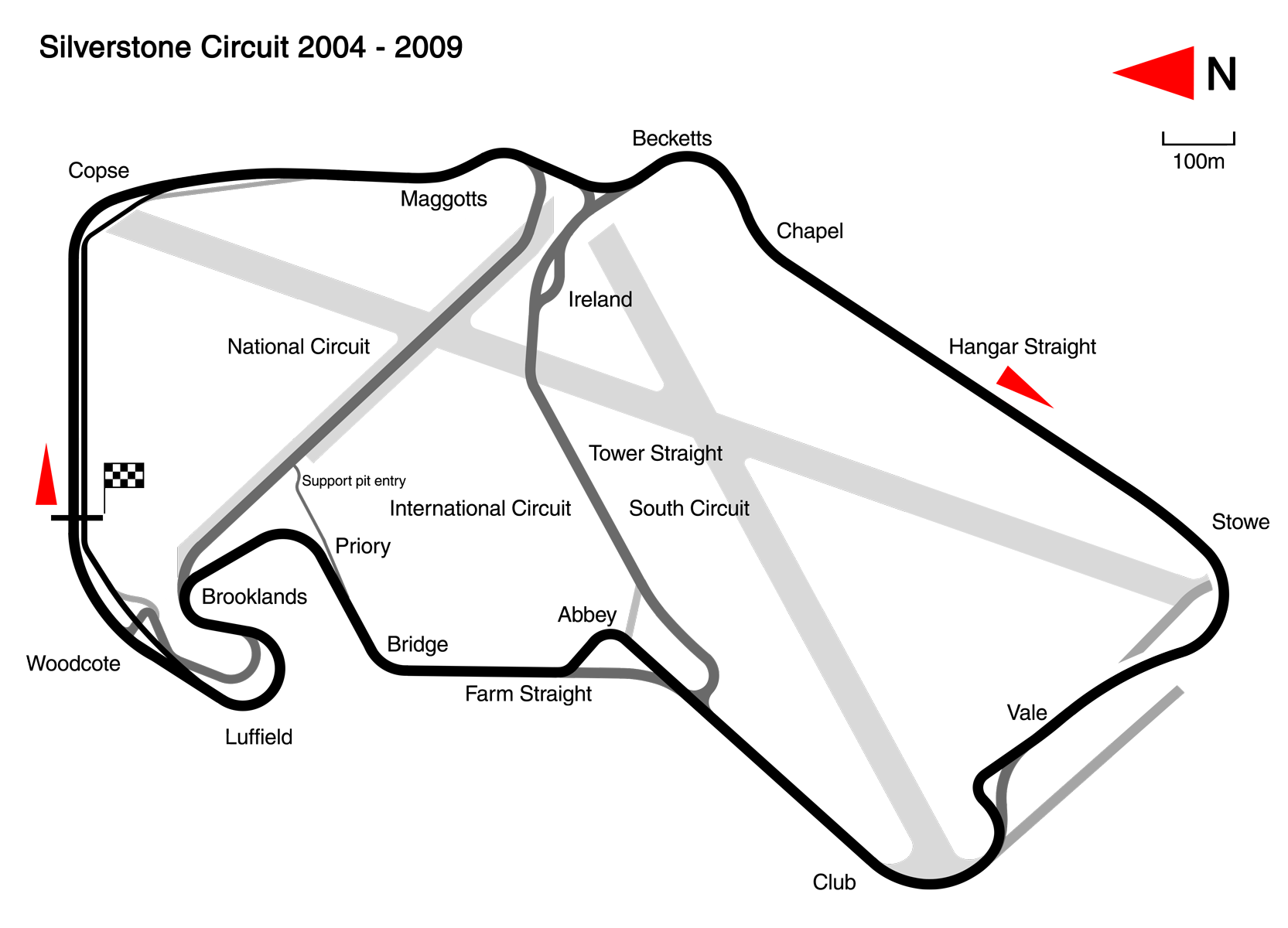 Track diagram of Silverstone Circuit in the UK in 2004 to 2009 configuration. Made to scale from aerial photographs.